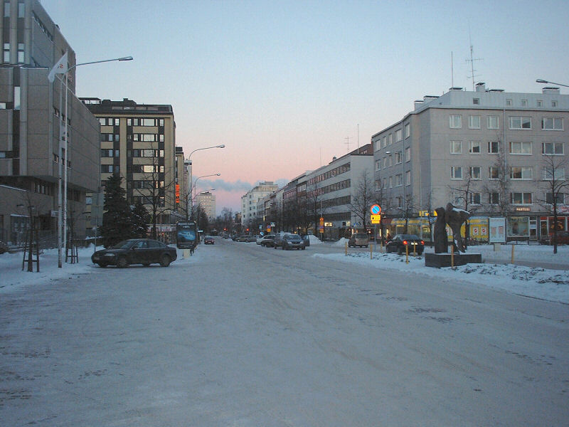 Hallituskatu street in Oulu, Finland, looking southwest from Oulu Railway Station.